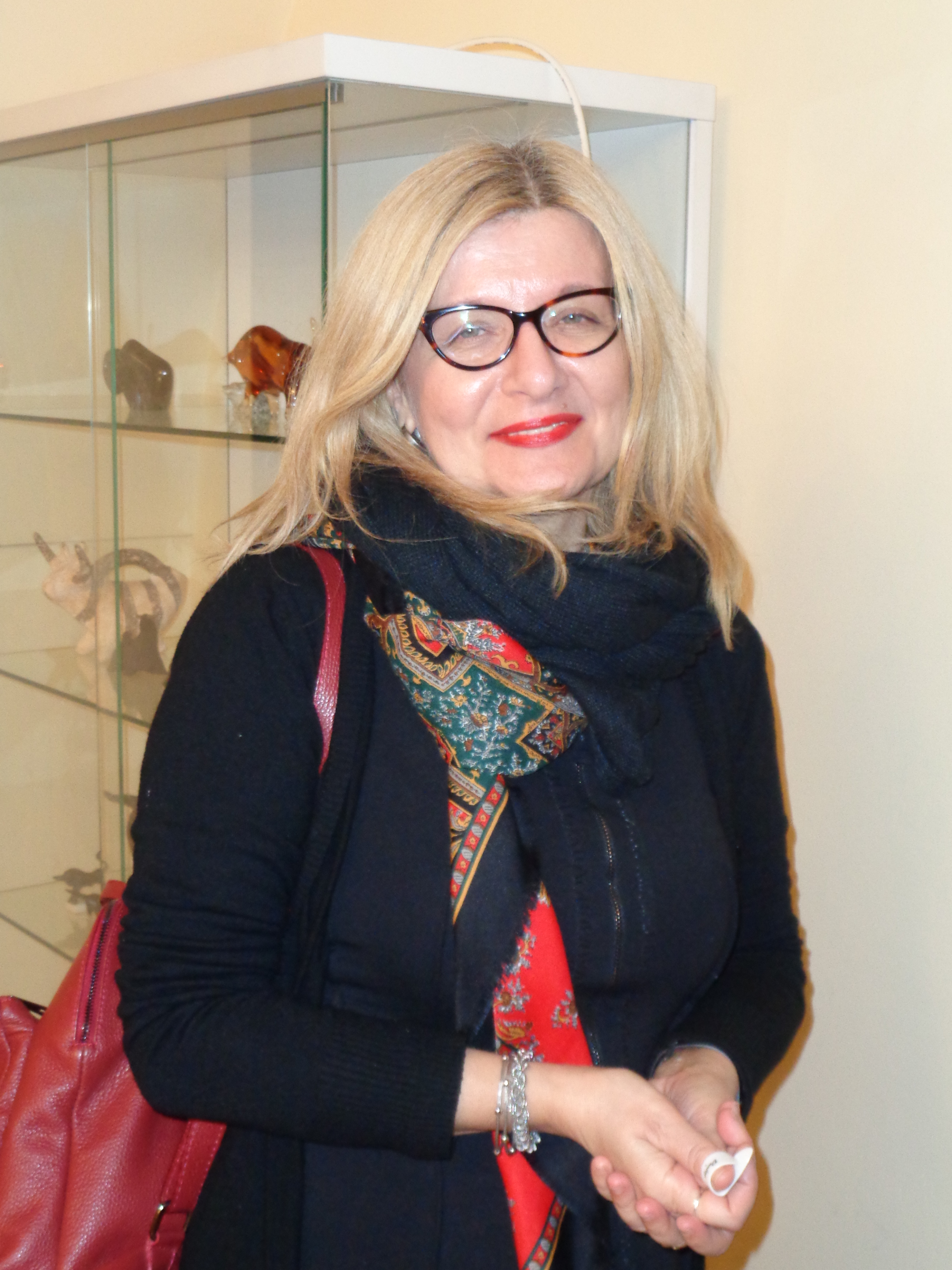 Lidija Bajuk (b.1965 in Čakovec), Croatian singer, songwriter and poet